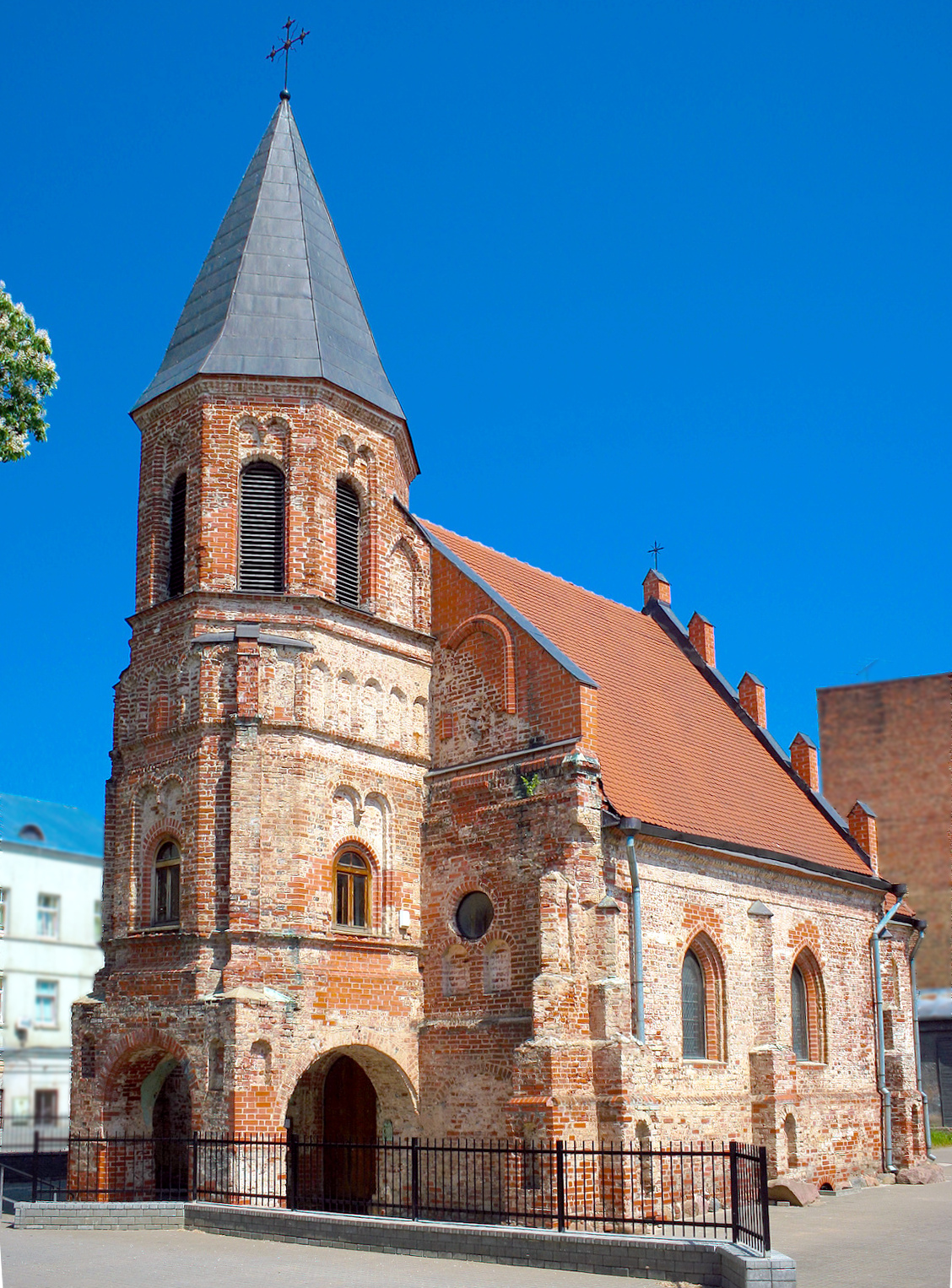 The St. Gertrude's Church in Kaunas, Gothic style.